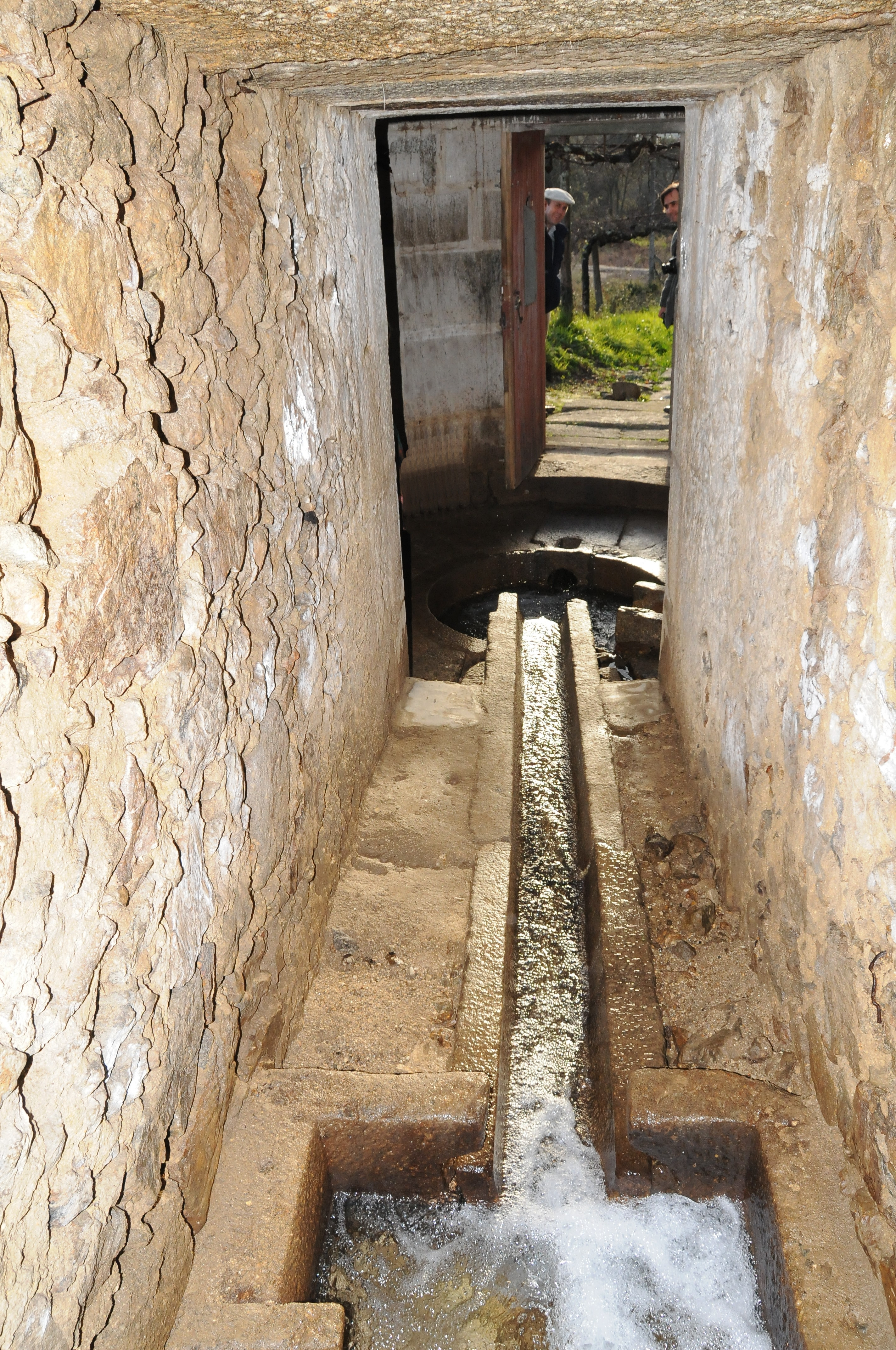 Interior of Mina do Dr. Sampaio, in Sete Fontes, Braga, Portugal.